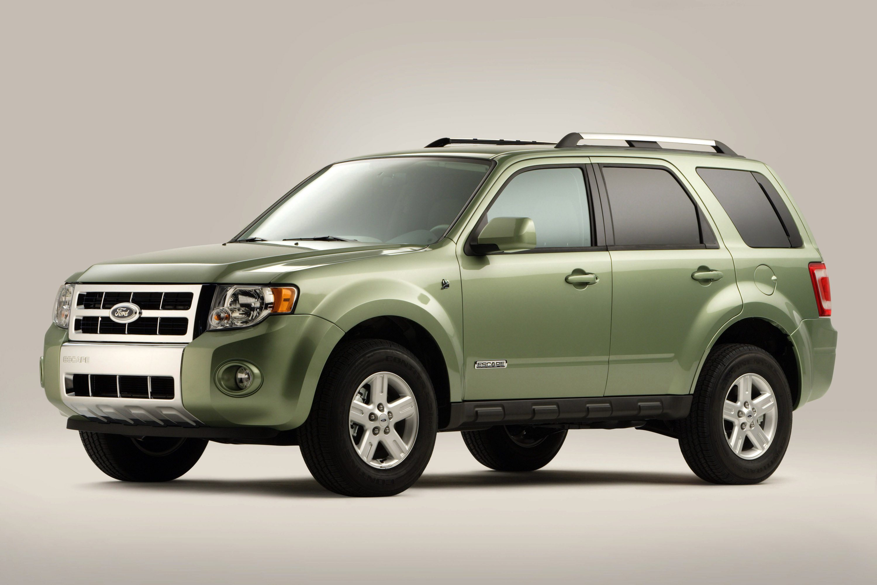 Publicity shot of the Ford Escape Hybrid, kindly released under an acceptable licence by the Ford Motor Company.